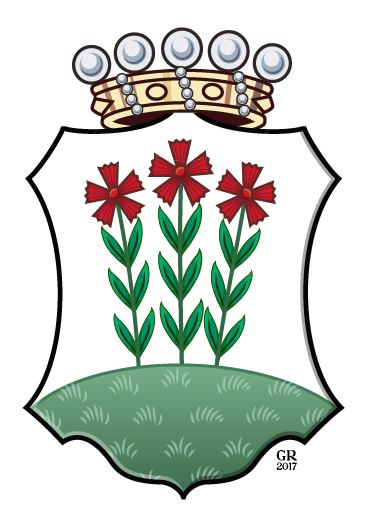 Coat of arms of Barons of Nolcken first recorded on 12 December 1747 in Sweden. [1] Escutcheon A three carnation flowers Proper growing out of a mount in base Vert (von Nolcken, Germany 1694). Crest Three carnation flowers Proper growing out of a mount in base Vert with Baron coronet Or.